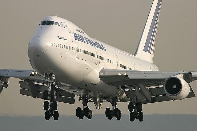 An Air France Boeing 747-200